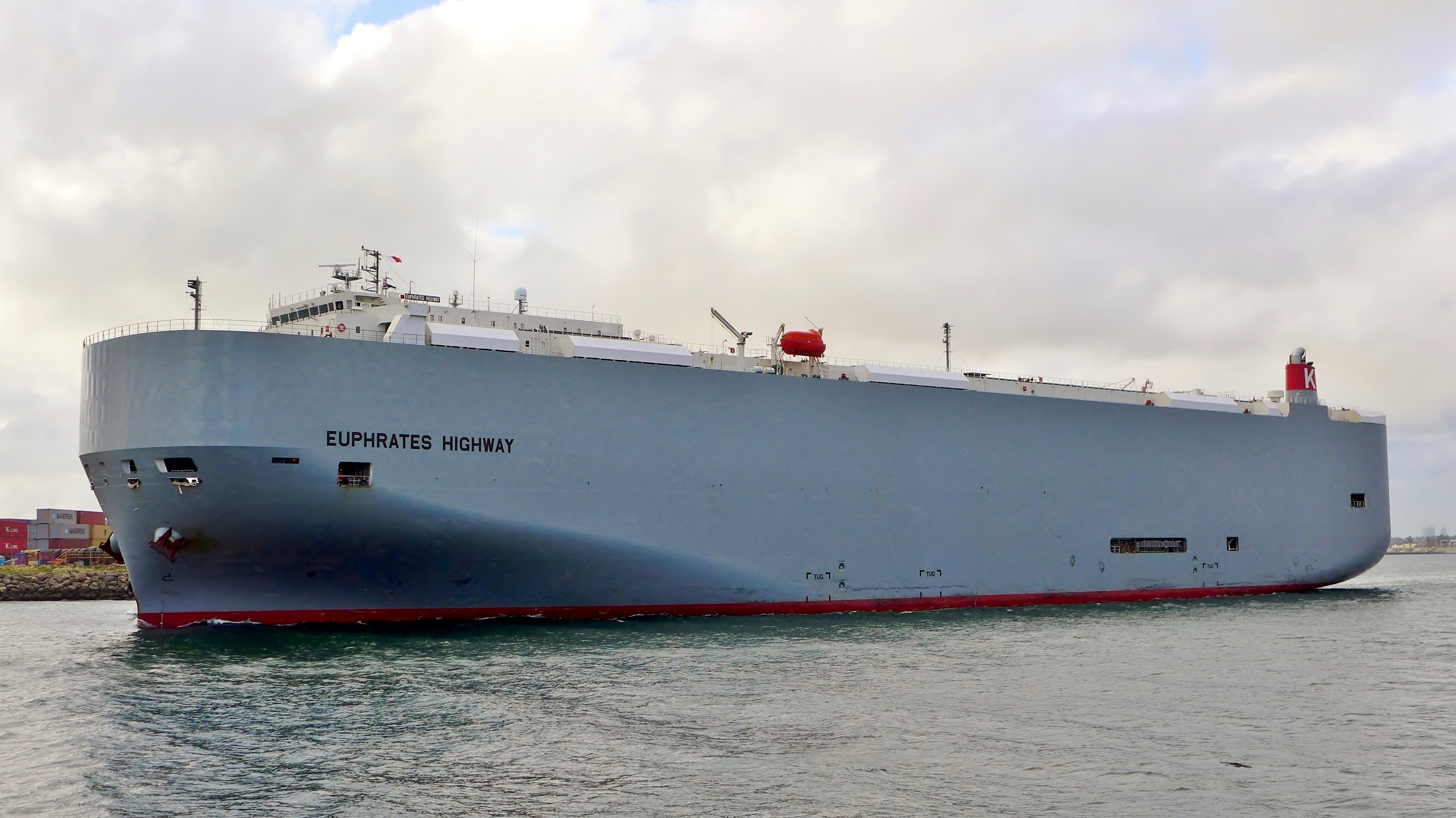 Car carrier Euphrates Highway departing from the inner harbour of the Port of Fremantle, Western Australia